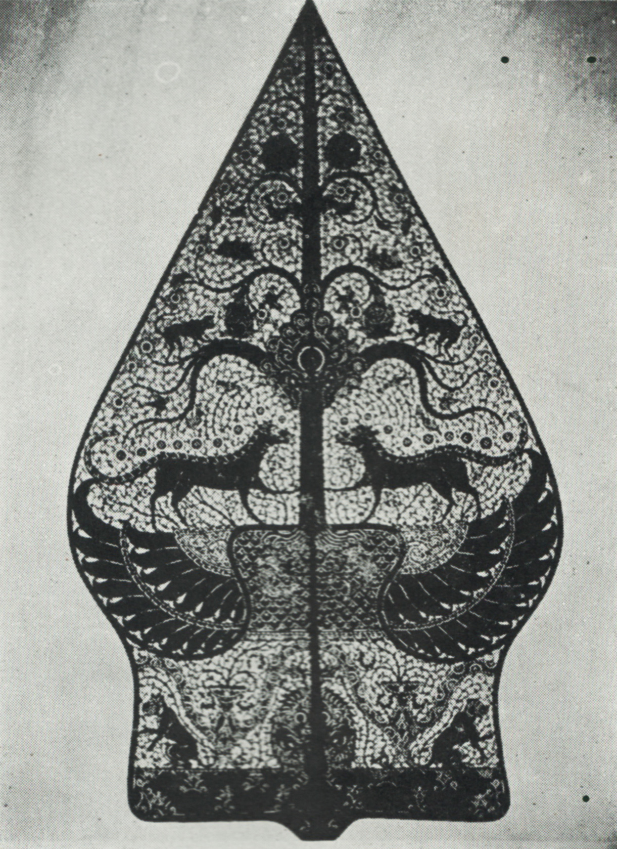 Gunungan (kayon) in Yogyakarta (credited to Budaya), Kota Jogjakarta 200 Tahun, plate before page 161